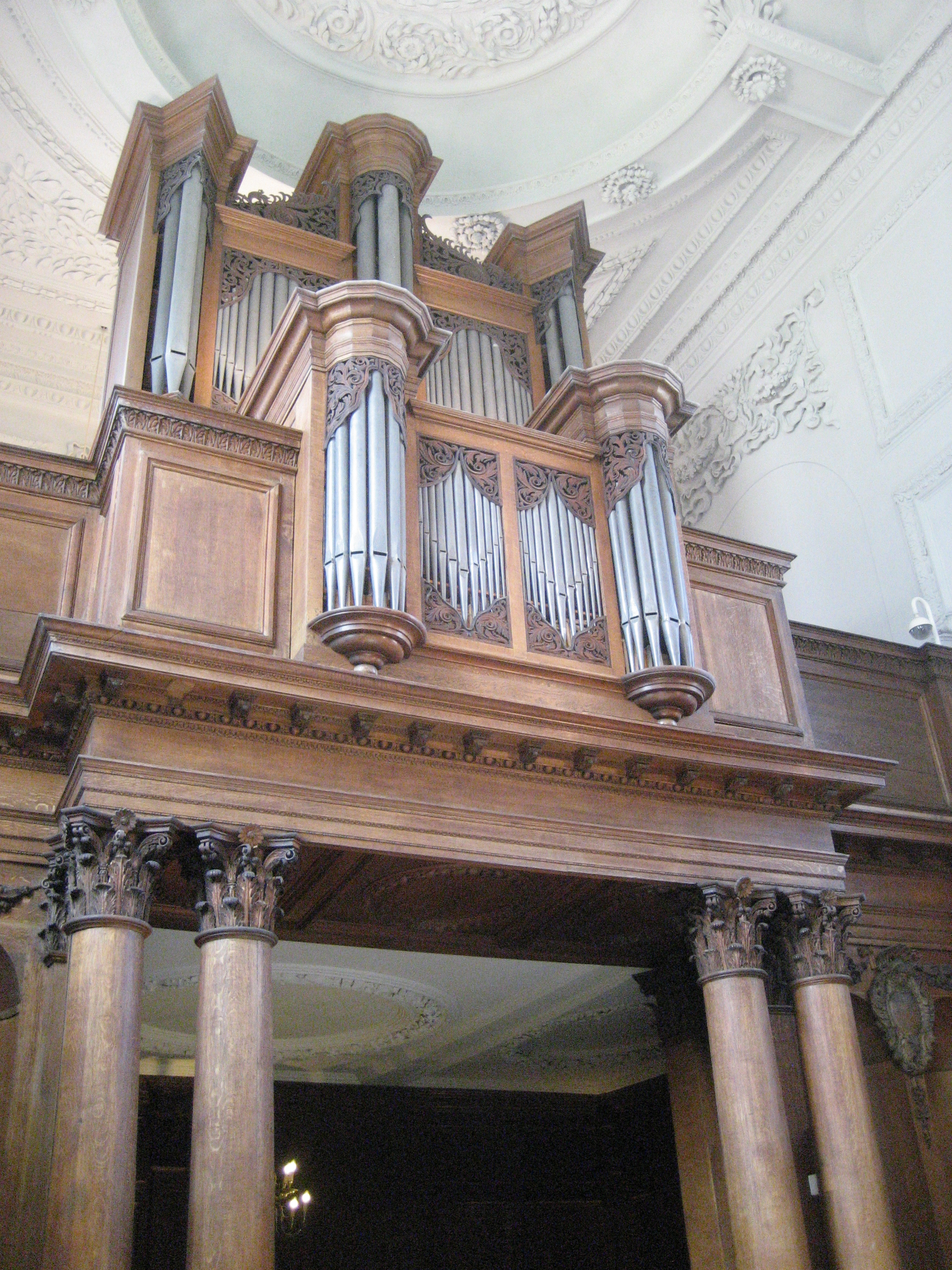 Organ in Pembroke College Chapel, Cambridge, England (UK)